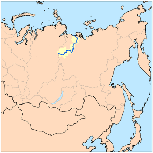 This is a map of the Olenyok River drainage basin.